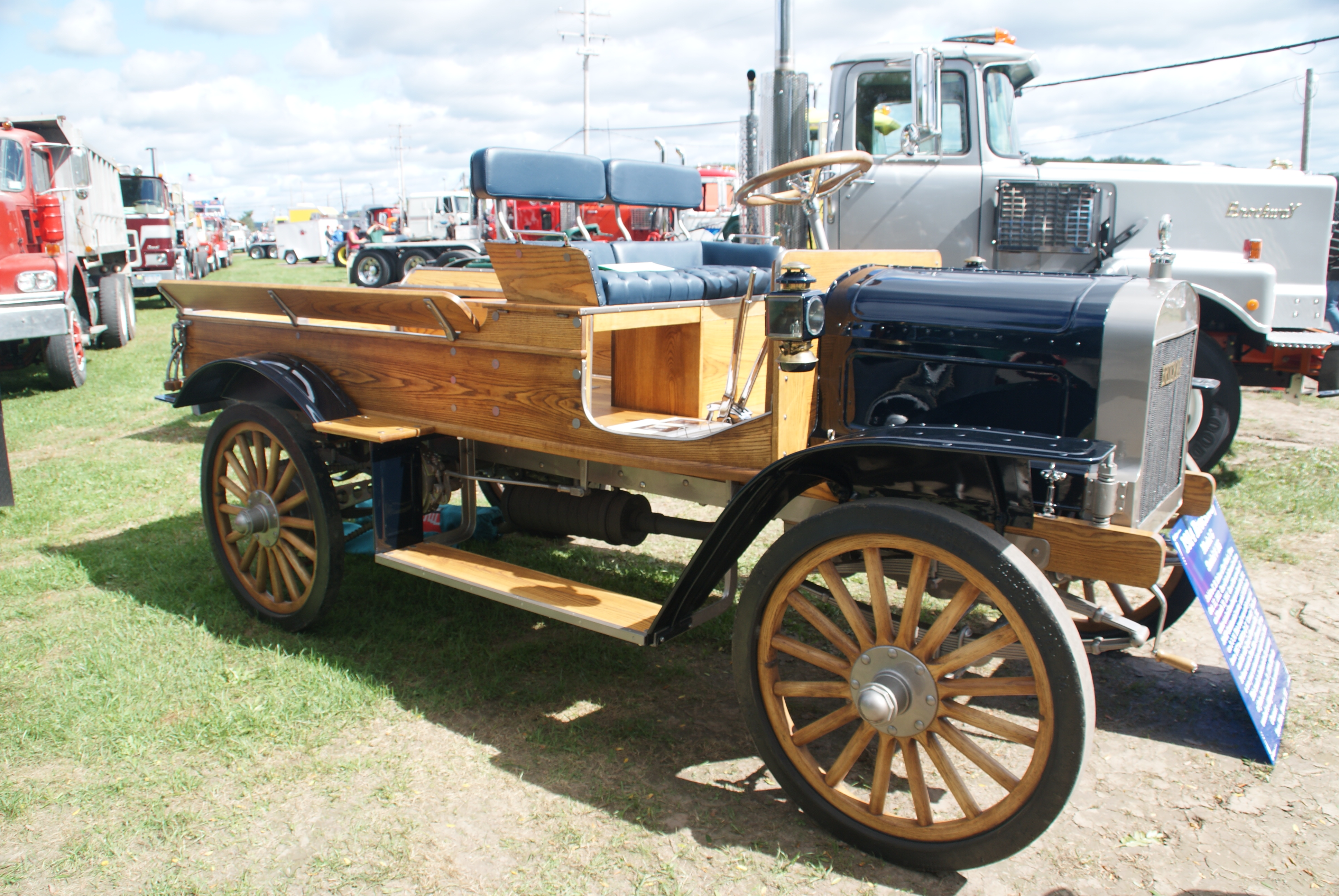 1914 Brockway Model G serial #105, 20 hp water-cooled Continental motor serial #206 truck show at Harford PA 2010-09-05